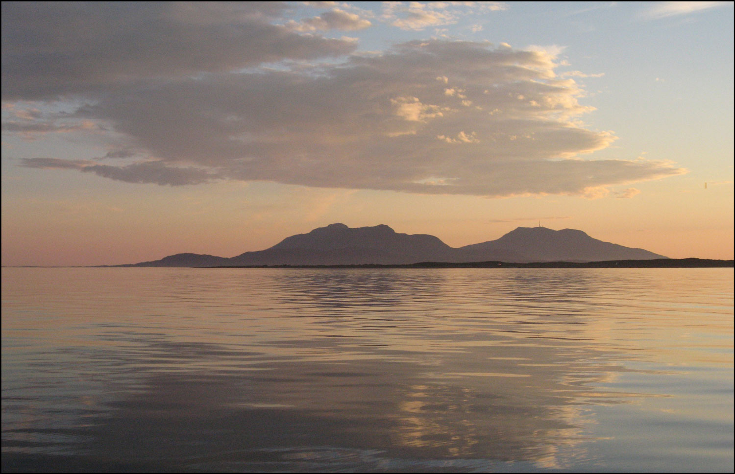 View of Vega Island, Norway